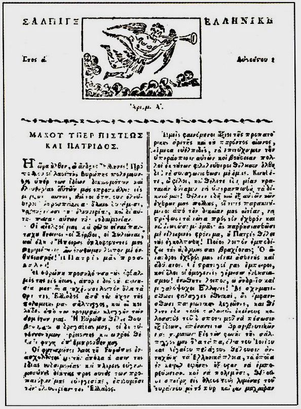 Salpigks Elliniki (Hellenic Trumpet), the first modern Greek newspaper, cover of August 2 1821